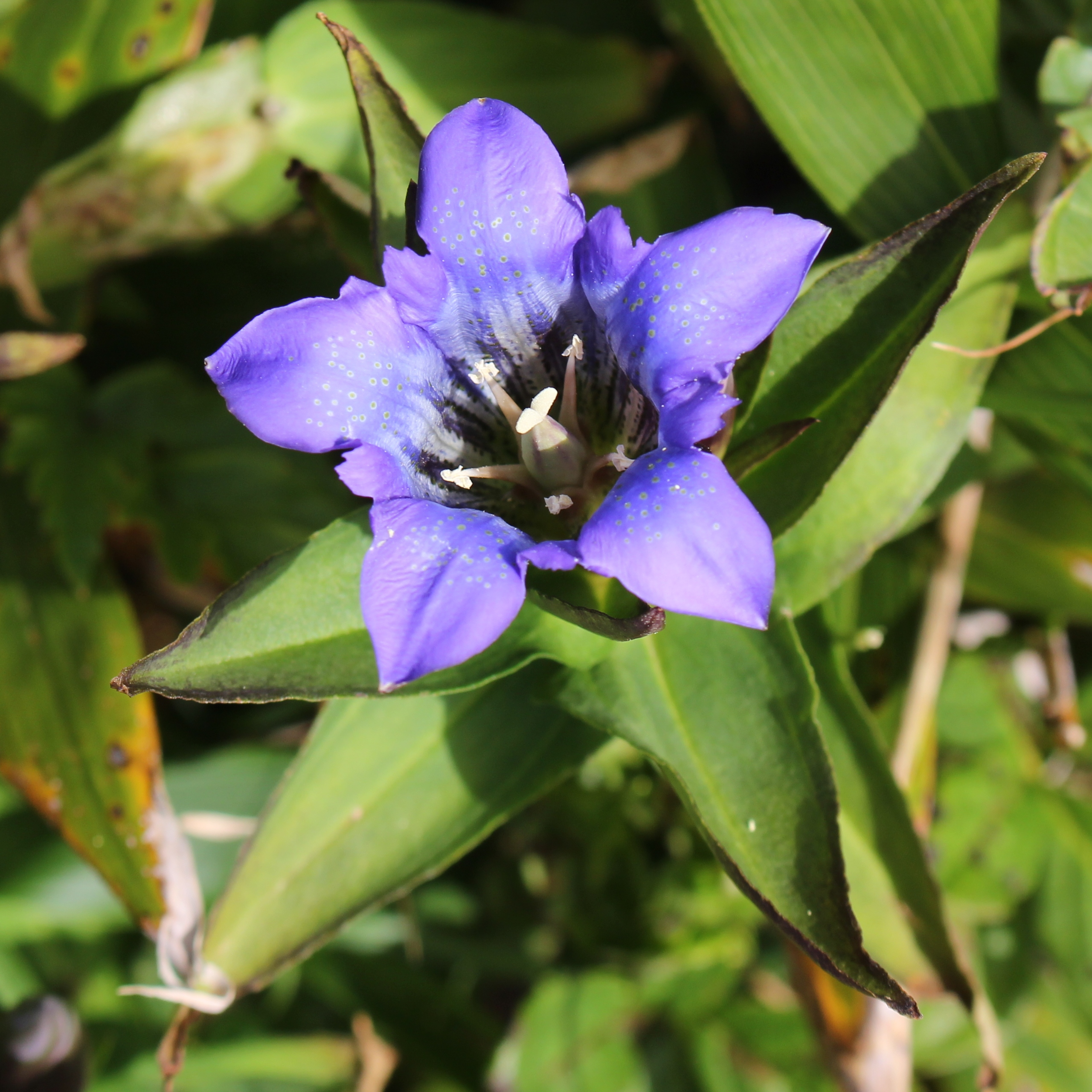 Gentiana scabra var. buergeri, in Mount Haku, Hakusan, Ishikawa prefecture, Japan.